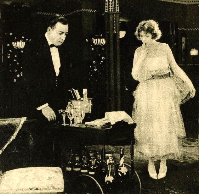 Still from the American silent film Fair and Warmer (1919) with Eugene Pallette and May Allison, from page 60 of the November 1919 Shadowland. "Blanny (Allison) regarded the tea-cart with pigeon toes and awe. It had a fearful aspect."